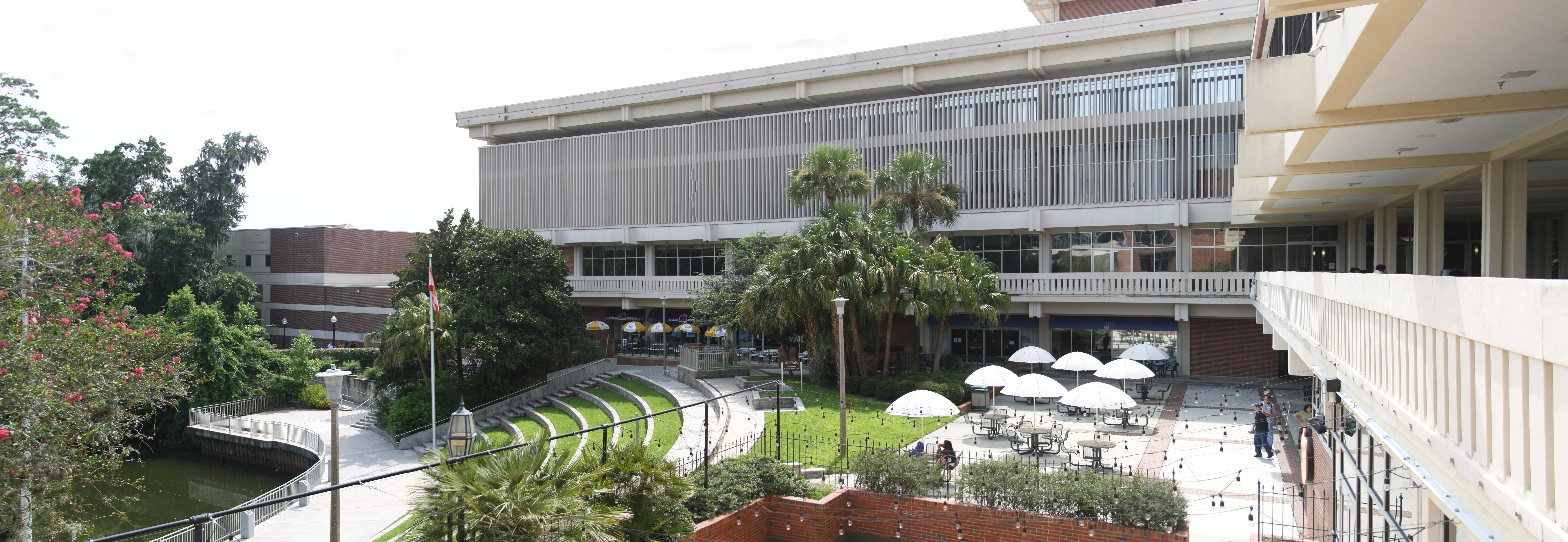 Reitz Union at the University of Florida. Stiched from multiple images using Hugin and then touched up using GIMP